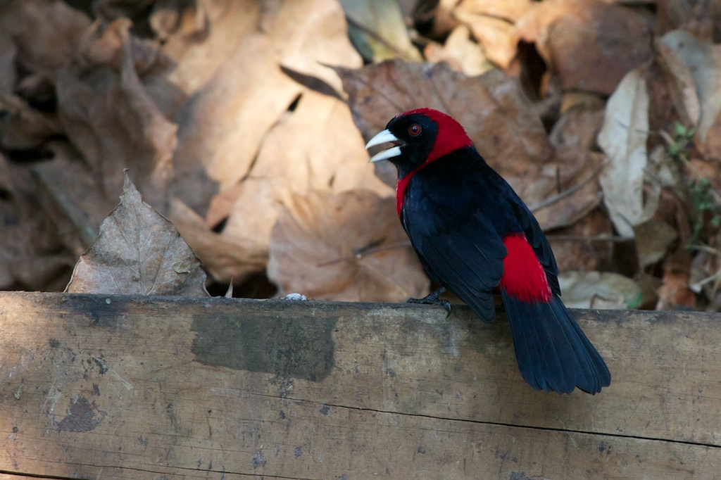 A Crimson-collared Tanager in Belize.